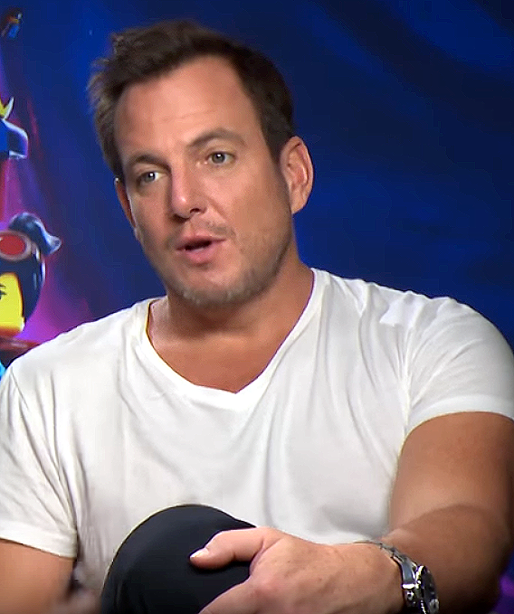 Chris Pratt, Elizabeth Banks, Tiffany Haddish and Will Arnett rummage around in MTV’s bag of tricks to reveal why EVERYTHING in it is AWESOME!